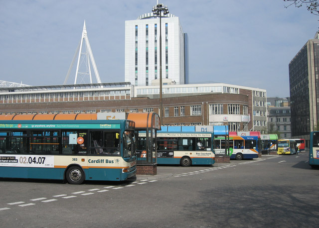 Cardiff bus station. Looking towards the bus station exit onto Wood Street. A couple of Cardiff Bus Dennis Dart SLF/Plaxton Pointer 2s can be seen, as well as a Stagecoach bus.